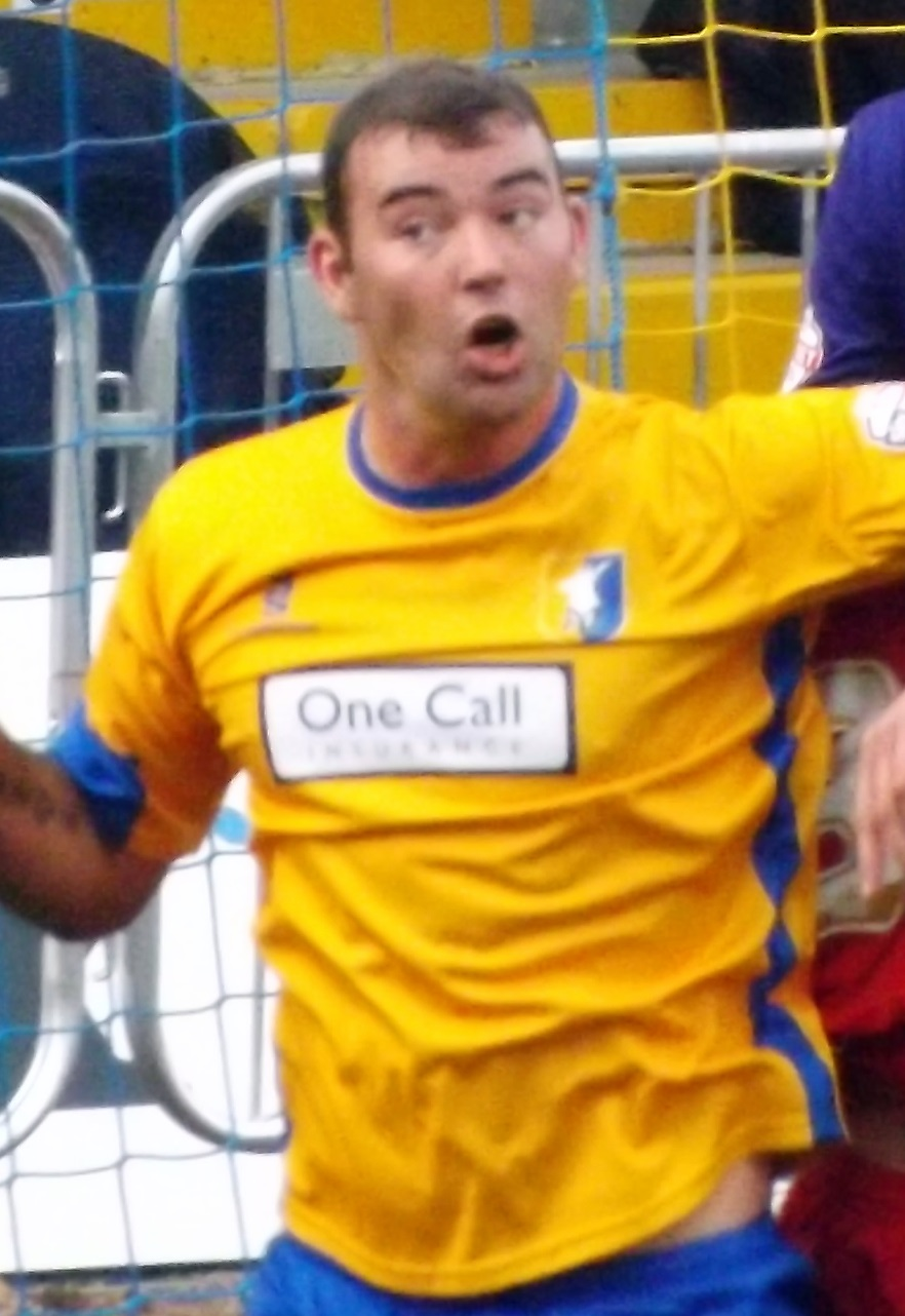 Matt Rhead. Image cropped from original at flickr.